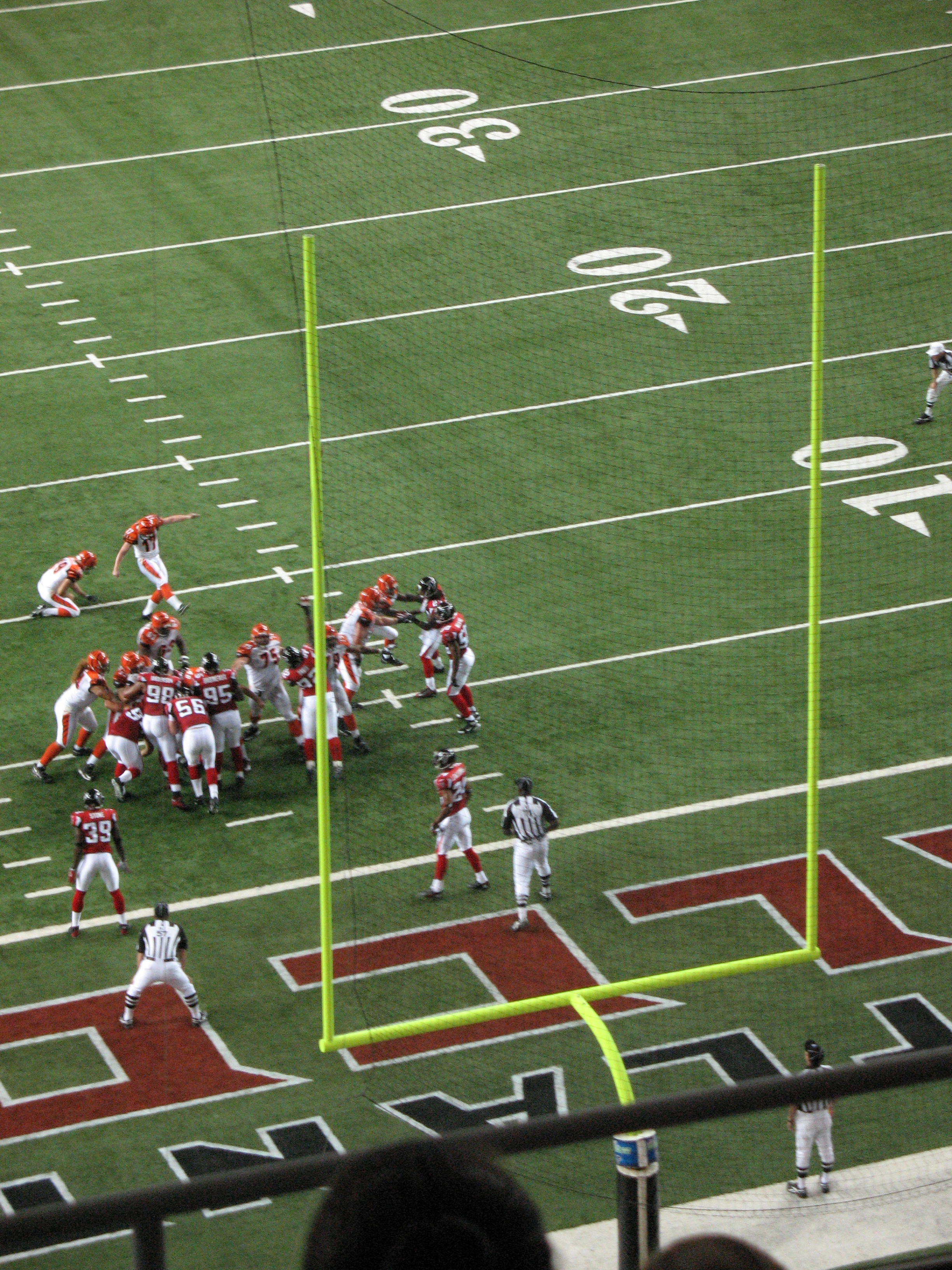 Shayne Graham kicks the extra point for Cincinnati in preseason game against Atlanta Falcons